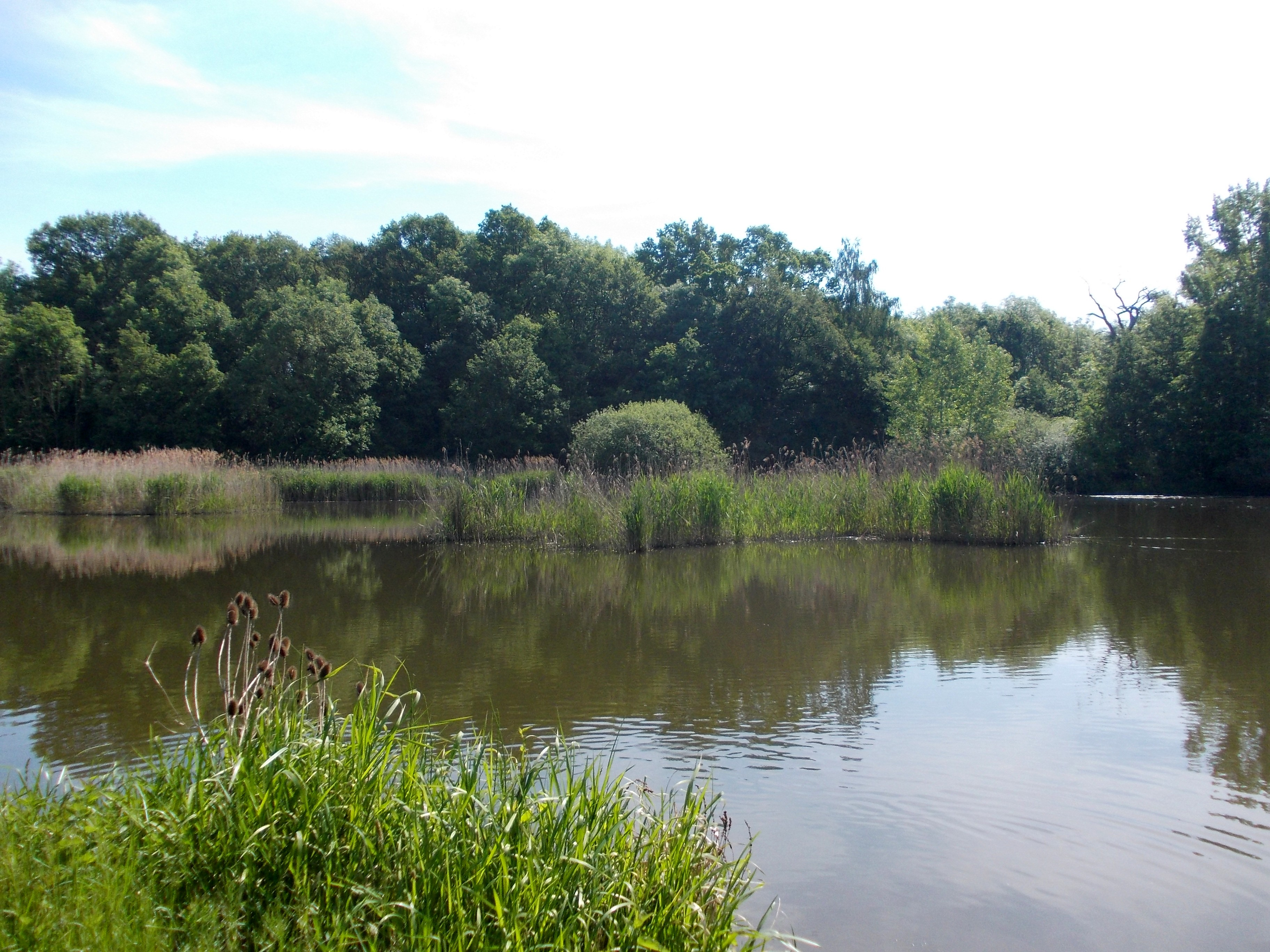 Lehmlache Lauer nature reserve (Leipzig, Saxony)